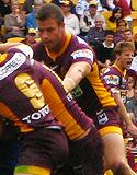 Ashton Sims